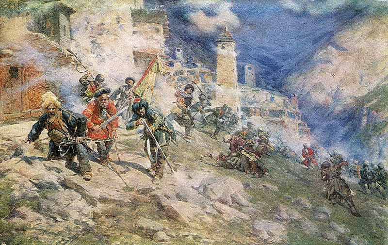 Defense of Arkhoti